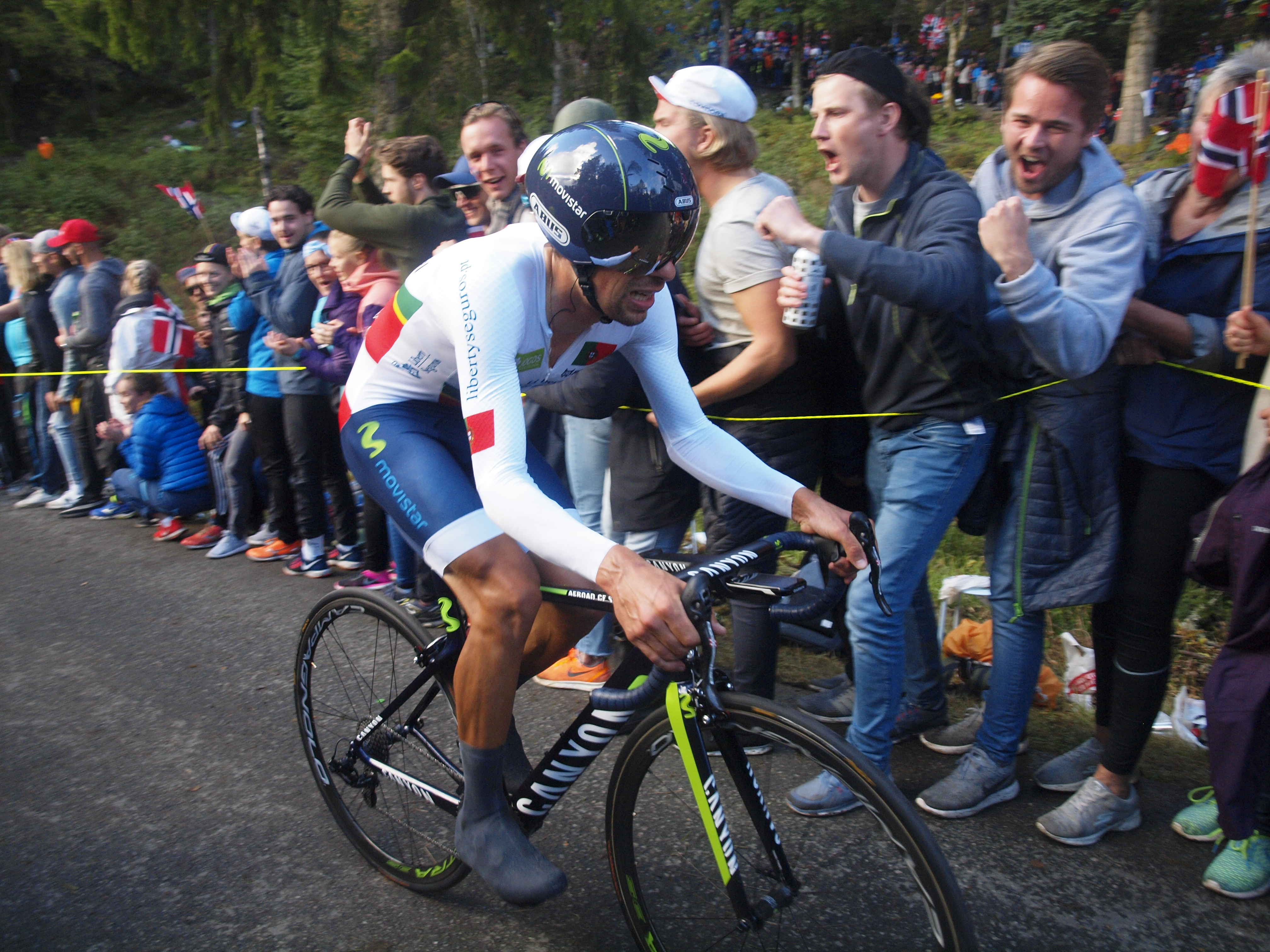 Nelson Oliveira at the 2017 UCI World Championships